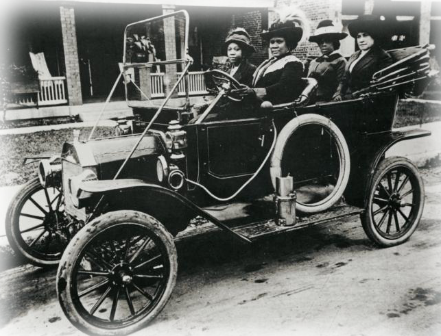 Madam C.J. Walker in an early automobile